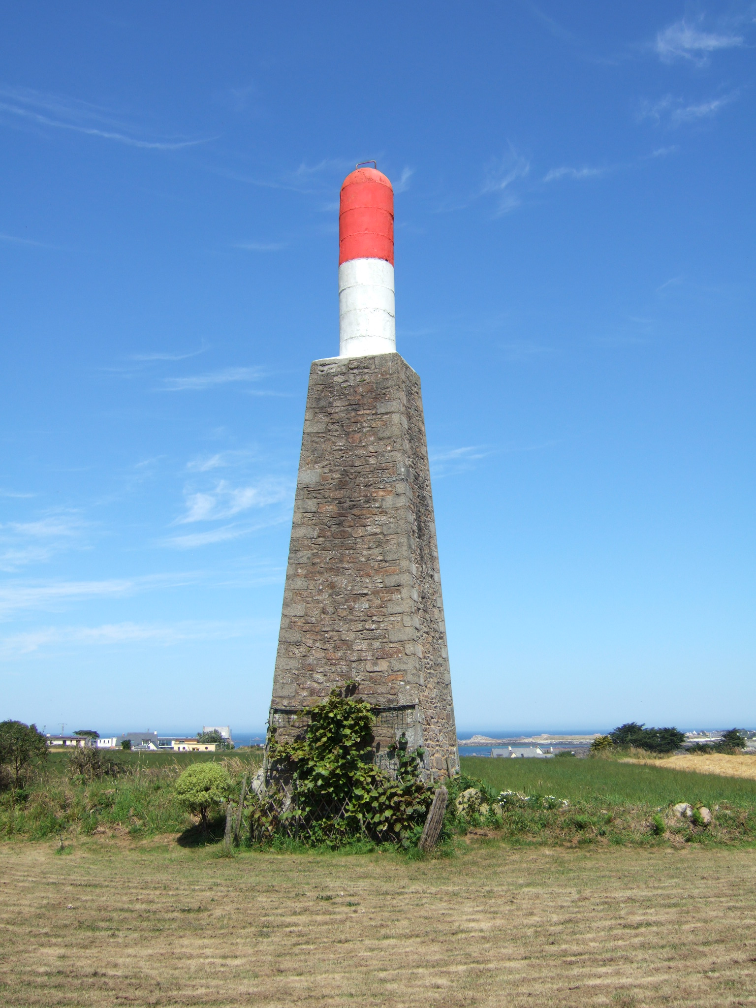 Navigation mark on land in Trémazan, France.